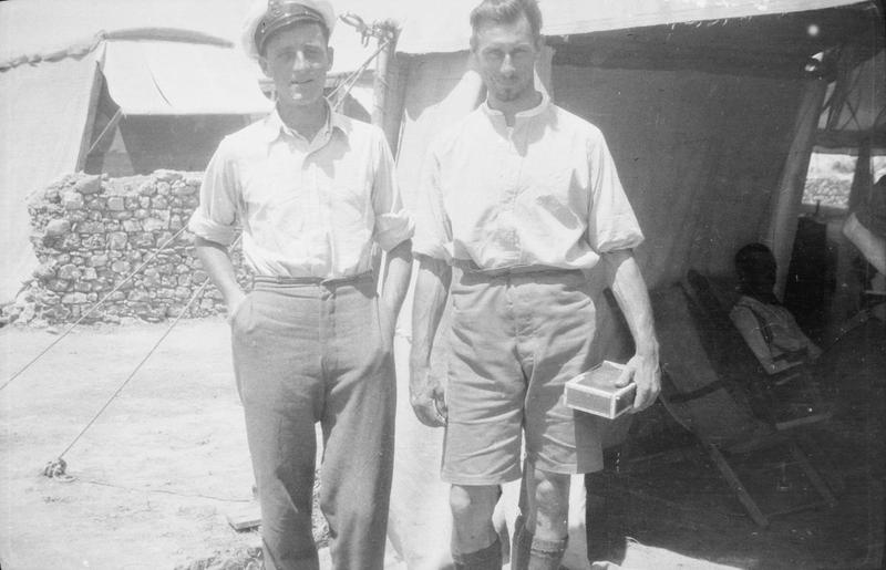 Knatchbull M (capt the Hon) Collection No. 5 Squadron R. N. A. S. Flight Commanders Marix and Thompson: Tenedos, Gallipoli, July 1915.